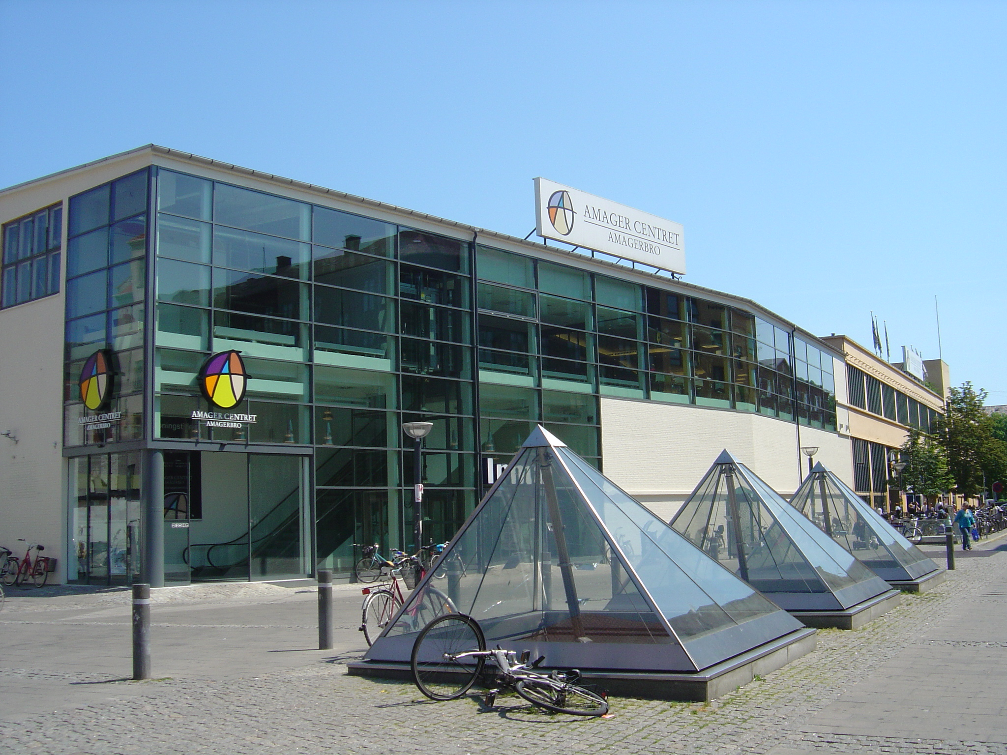 Amager Centret - Amagerbro, is a shopping center located in the north of Amager, Copenhagen. Seen from northwest side, next to Amagerbro Station.